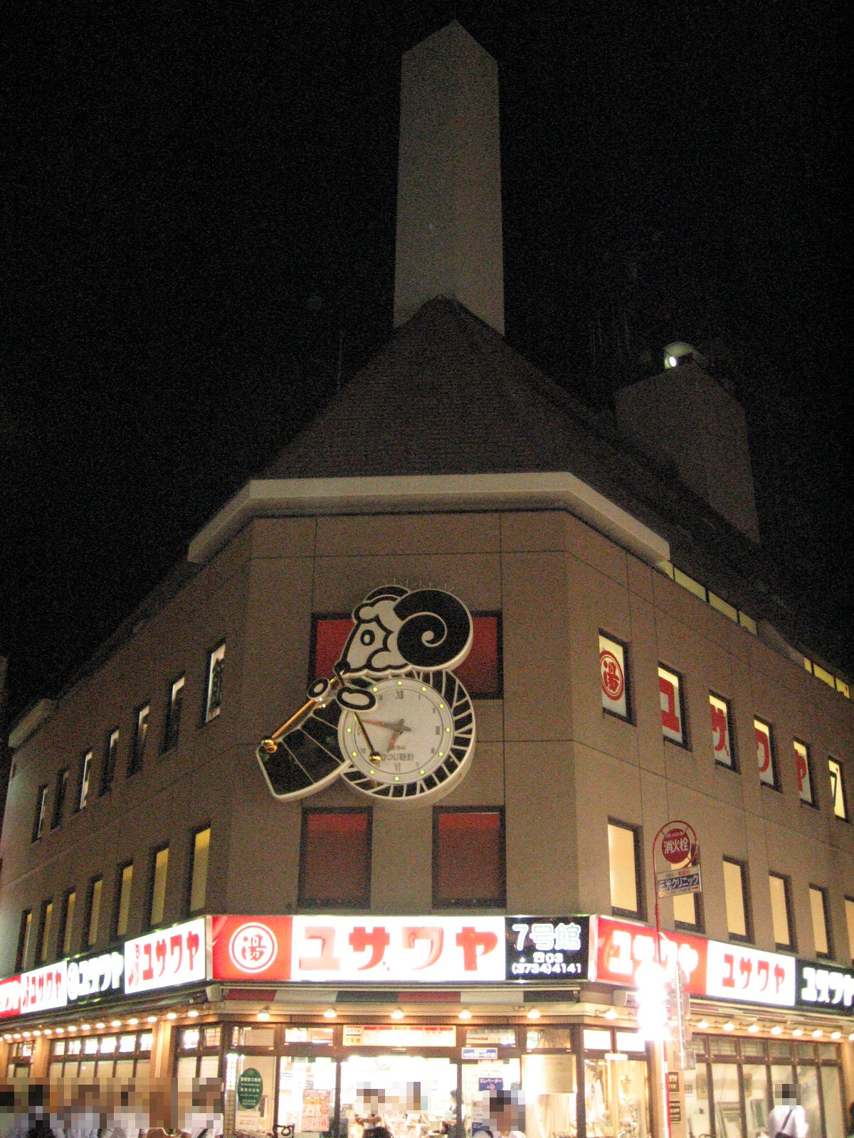 Yuzawaya Kamata 7th Buildings.